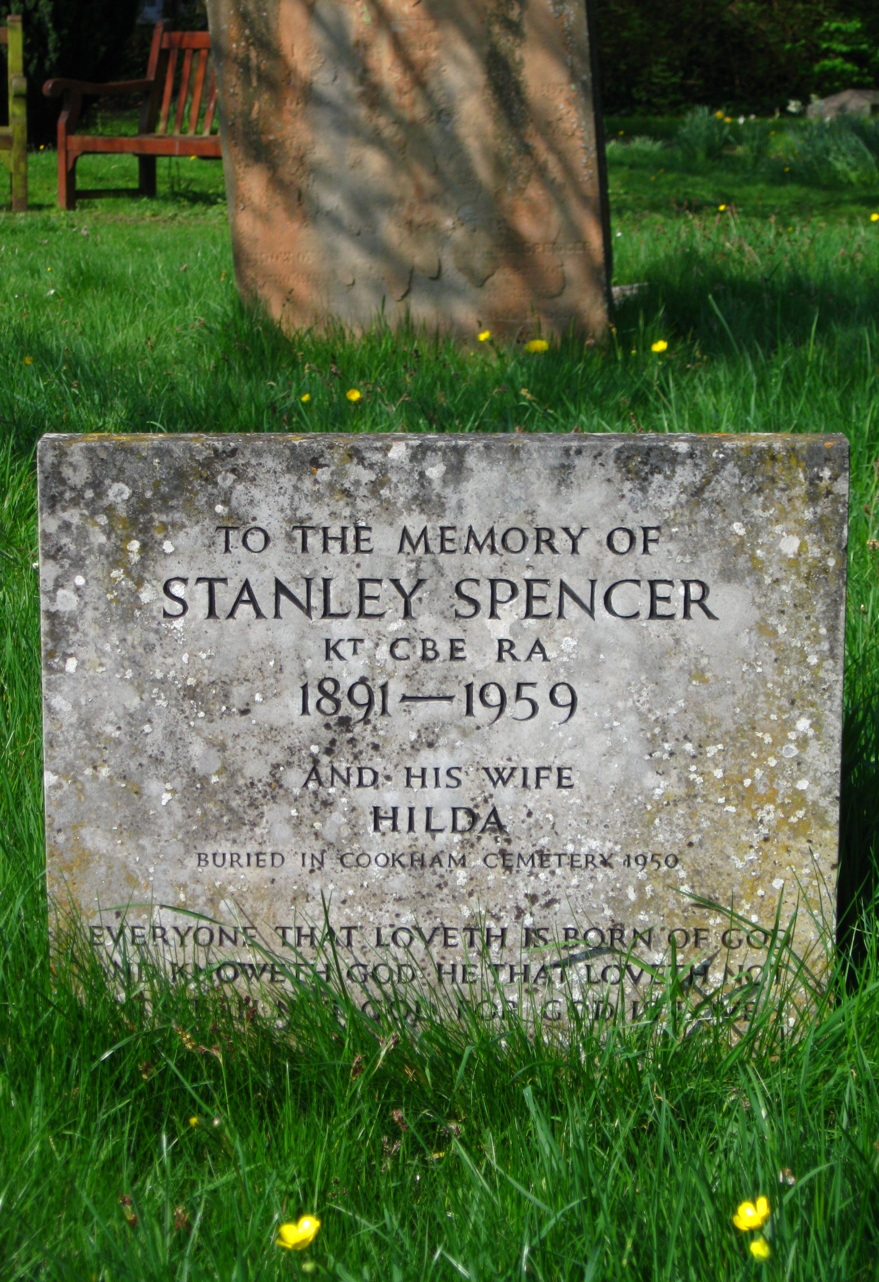 The Grave of Sir Stanley Spencer - Awaiting the Resurrection, Cookham